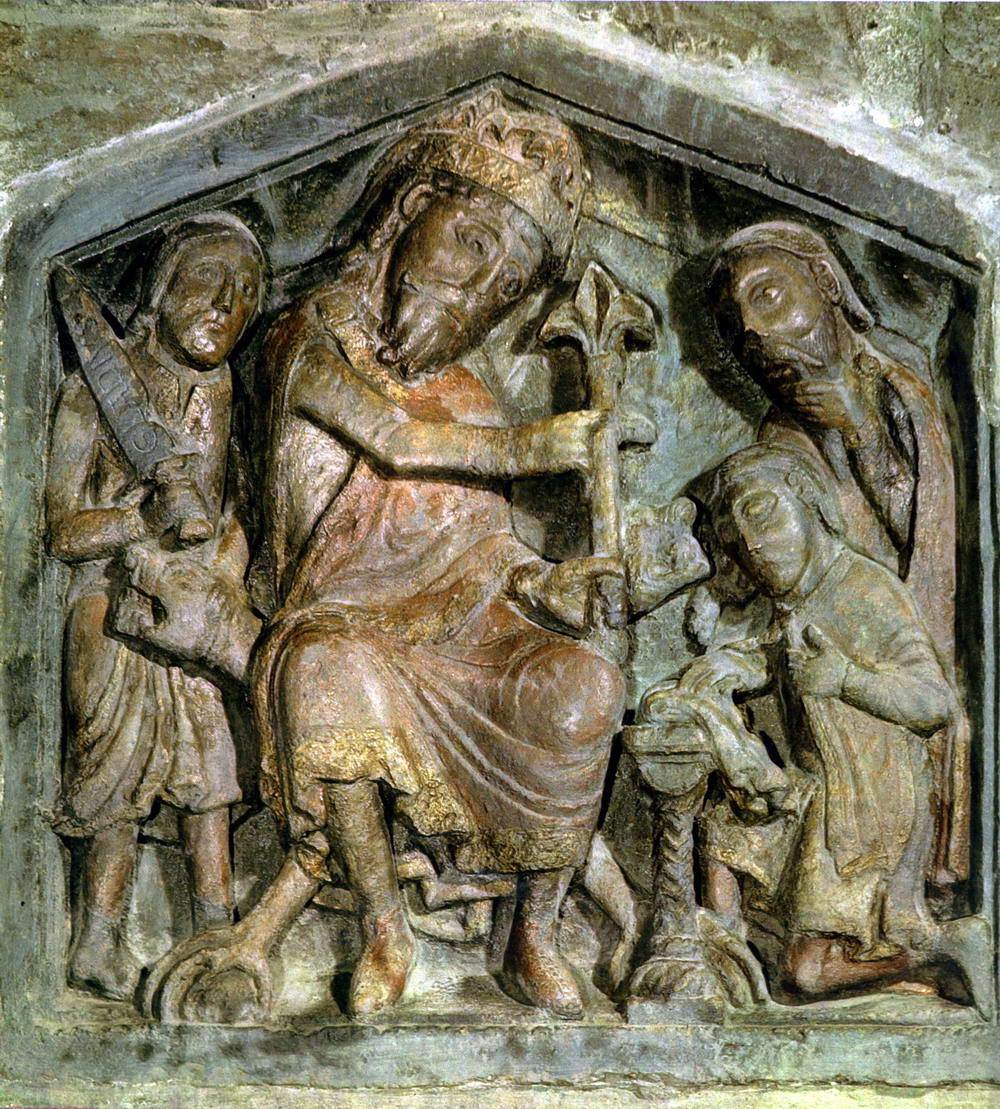 Maastricht. Church of Our Beloved Lady. 'Oath on the reliques'. Mosan sculpture, XIIth century